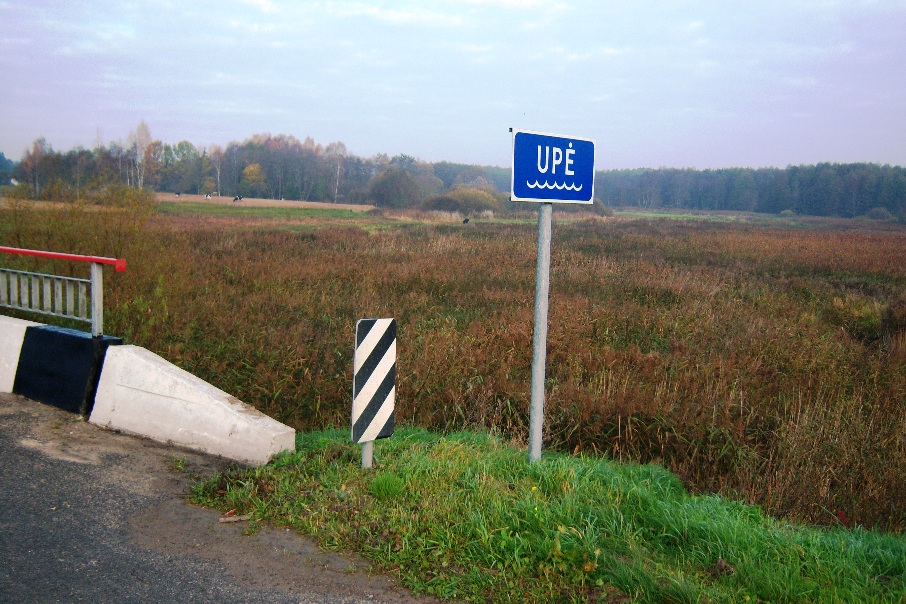 Upė River in Raseiniai District, Lithuania